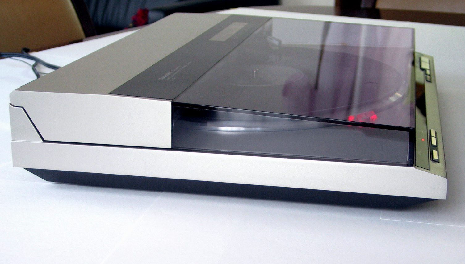 Technics SL-QL1, ser.DA14-21C159